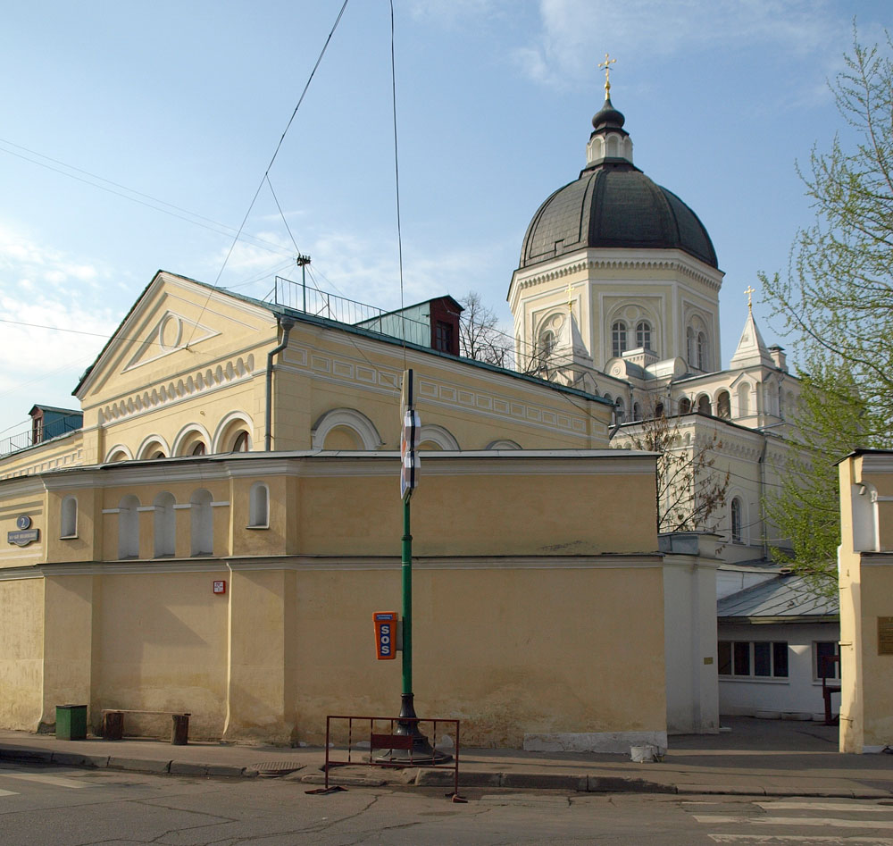 Main cathedral of Ivanovsky Convent in Moscow. 1860-1879, architect: Mikhail Bykovsky